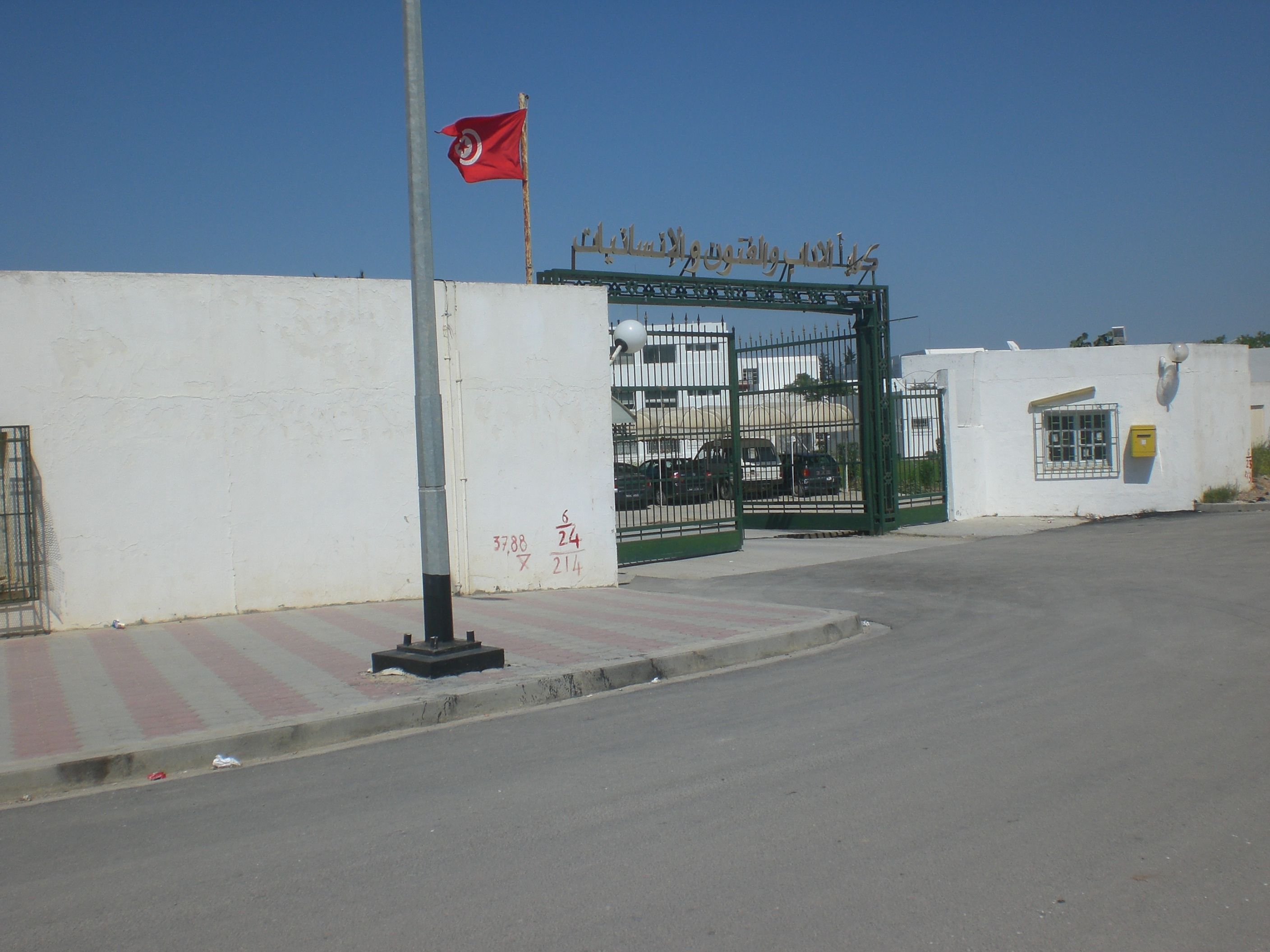 The Faculty of Arts - Manouba